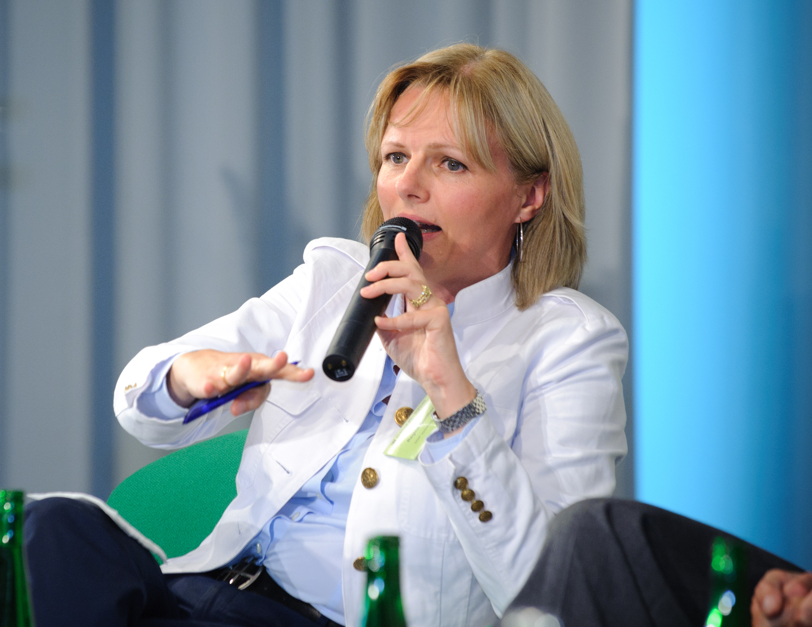 Regine Günther bei der Veranstaltung "Ü30! Die Grünen vor neuen Herausforderungen" der Heinrich-Böll-Stiftung, Berlin